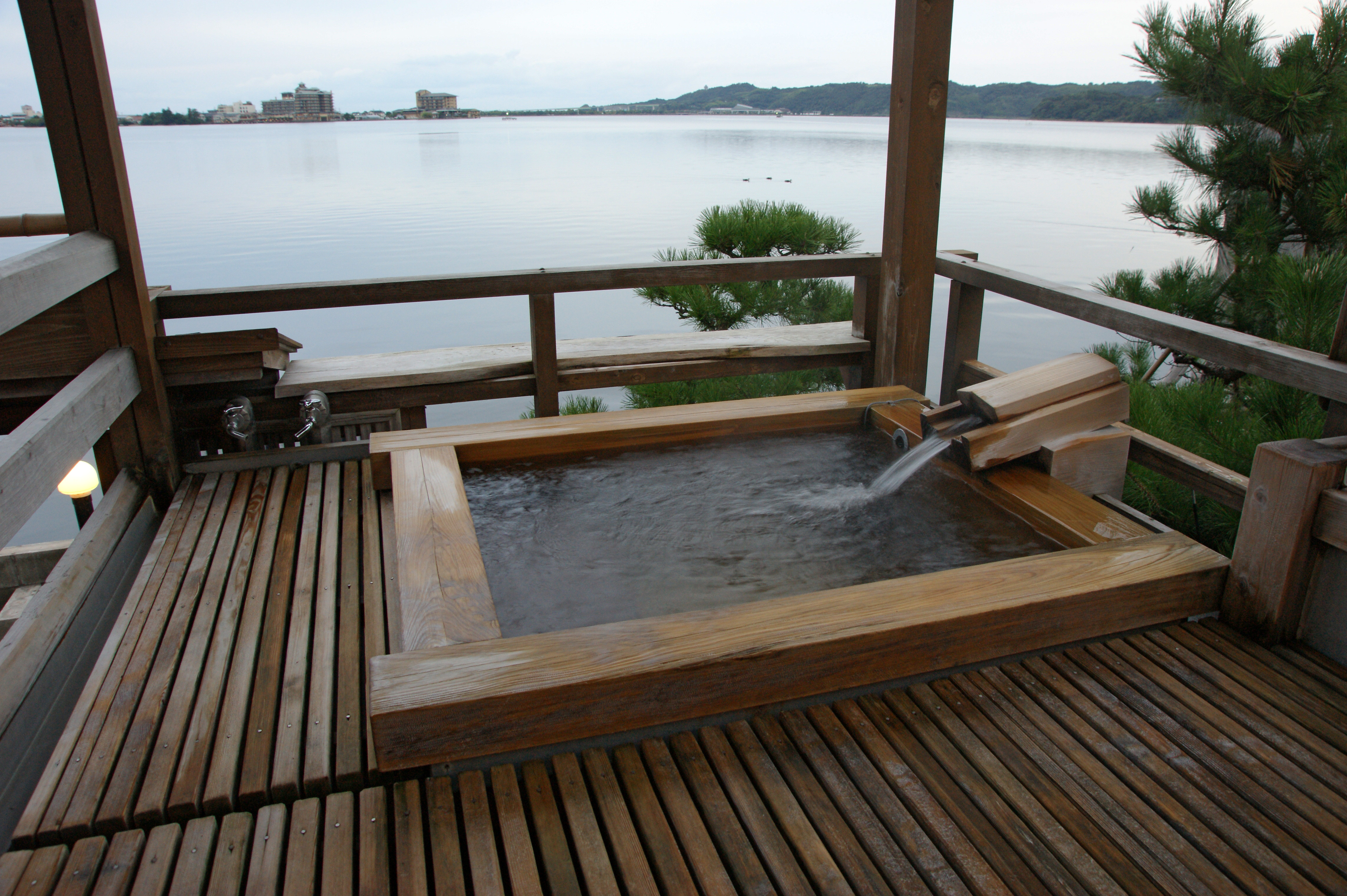 Togo Onsen, Yurihama, Tottori prefecture, Japan